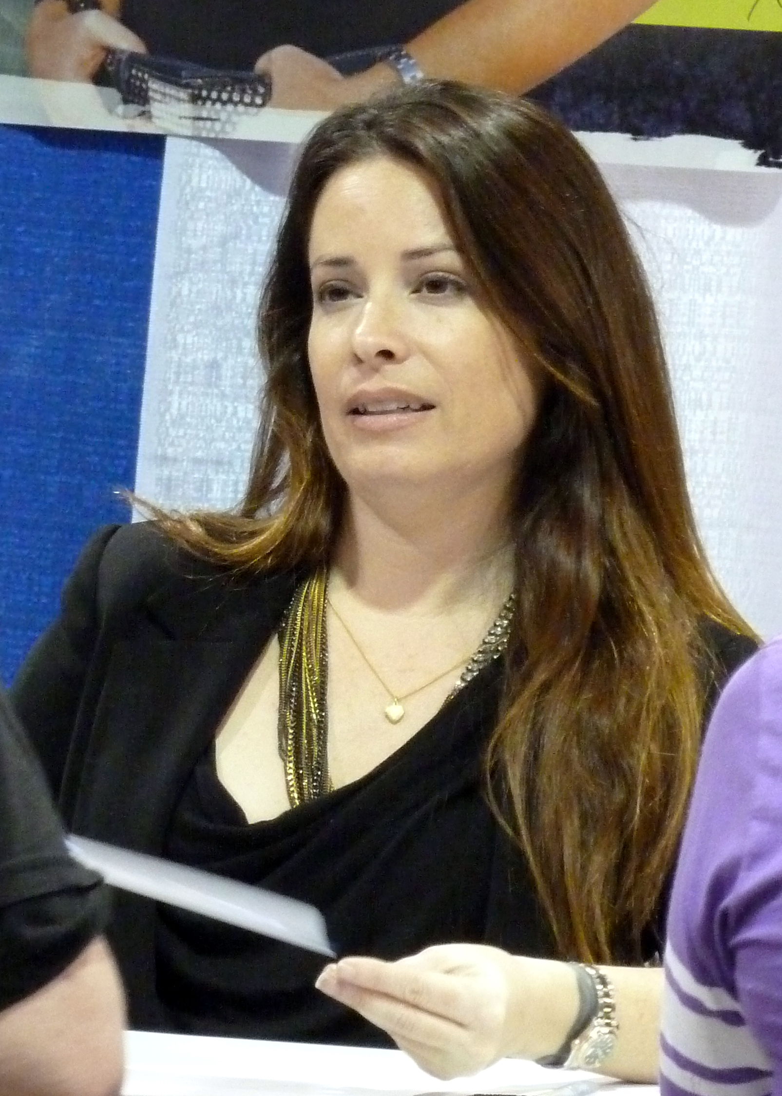 Holly-Marie Combs 01 Guests at Wizard World Chicago 2012.